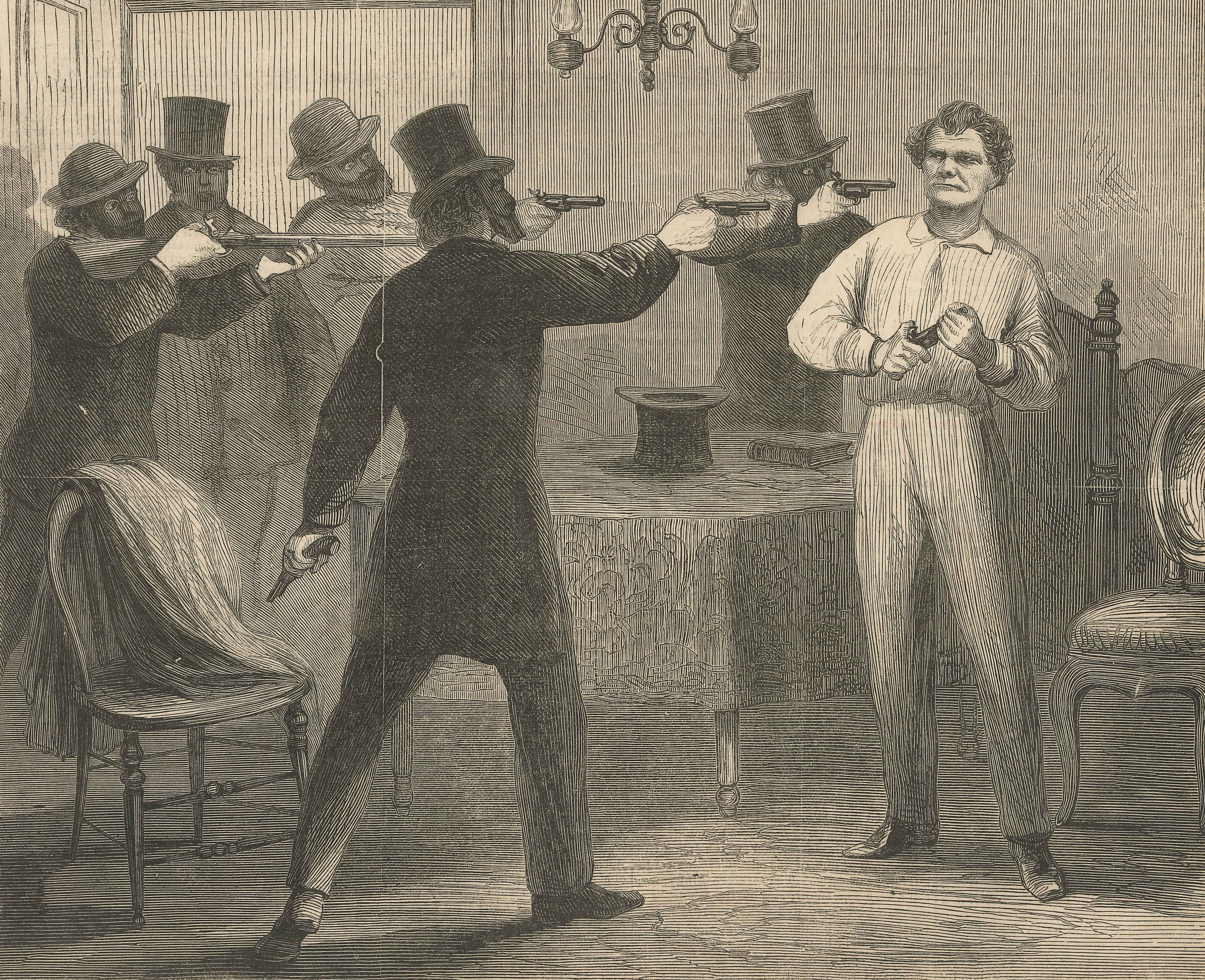 Frank Leslie's Illustrated (1868) entitled "The Ku Klux Klan At Work -- The Assassination Of The Hon. G.W. Ashburn, In Columbus, Georgia."